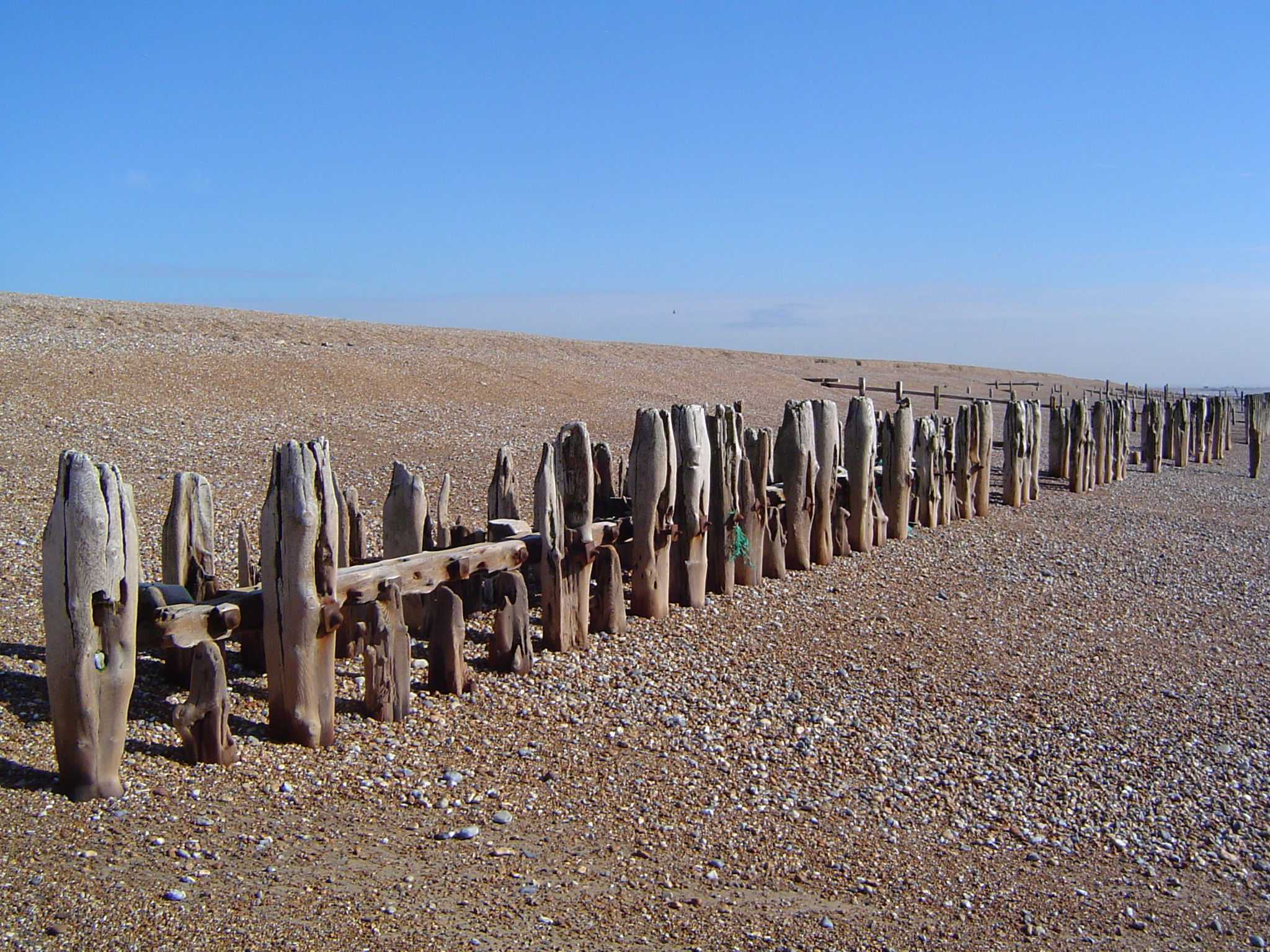 Sea defences on the South Coast (UK) near Winchelsea. Camera: Sony Cybershot DSC-P72.